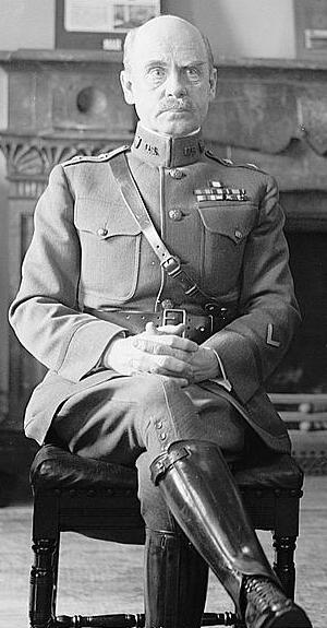 Major General Peter C. Harris